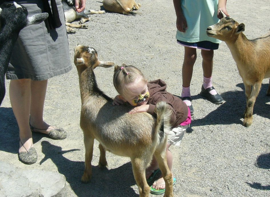 Petting Zoo